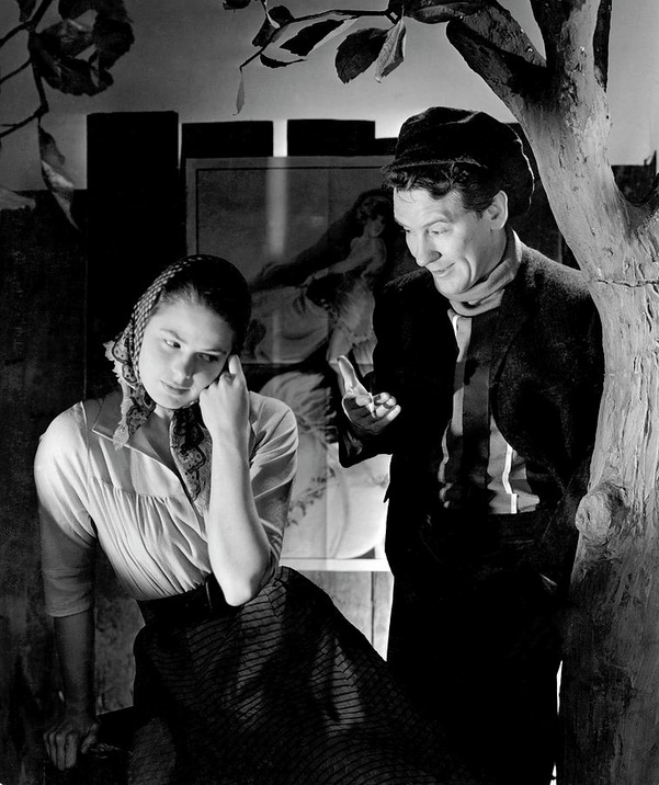 Ingrid Bergman & Burgess Meredith in American version of the play Liliom (1940). No copyright notice. More information